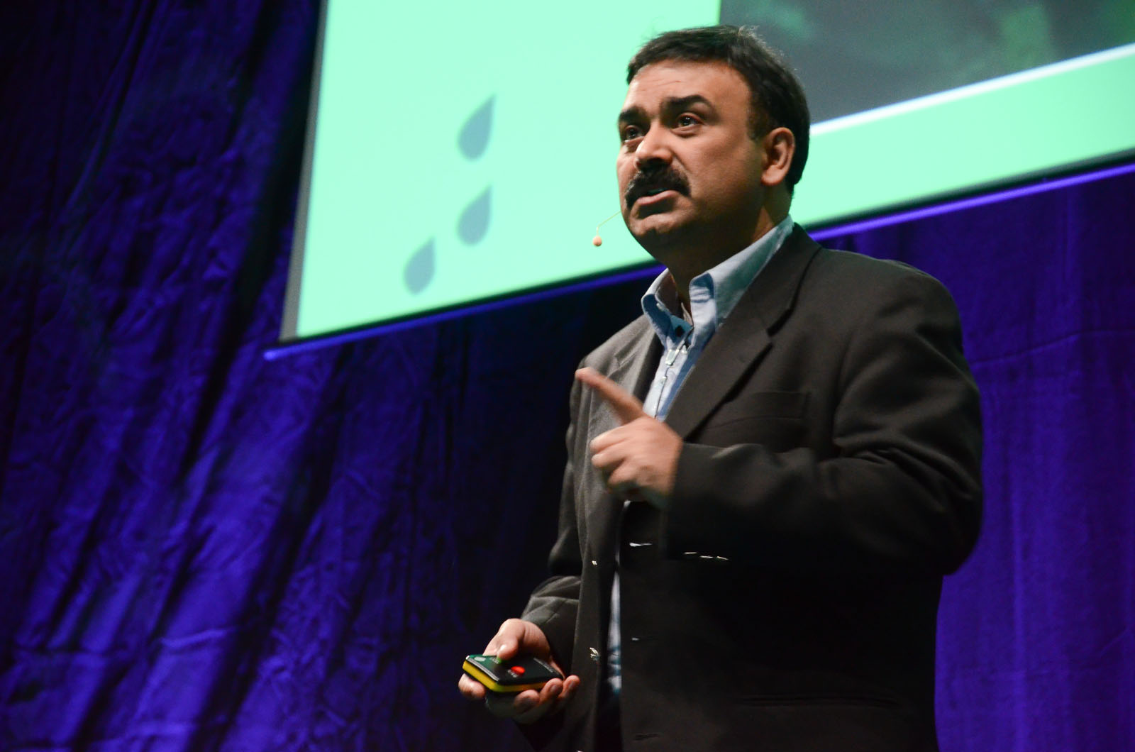 Abhijit Bhaduri by Ivo Näpflin